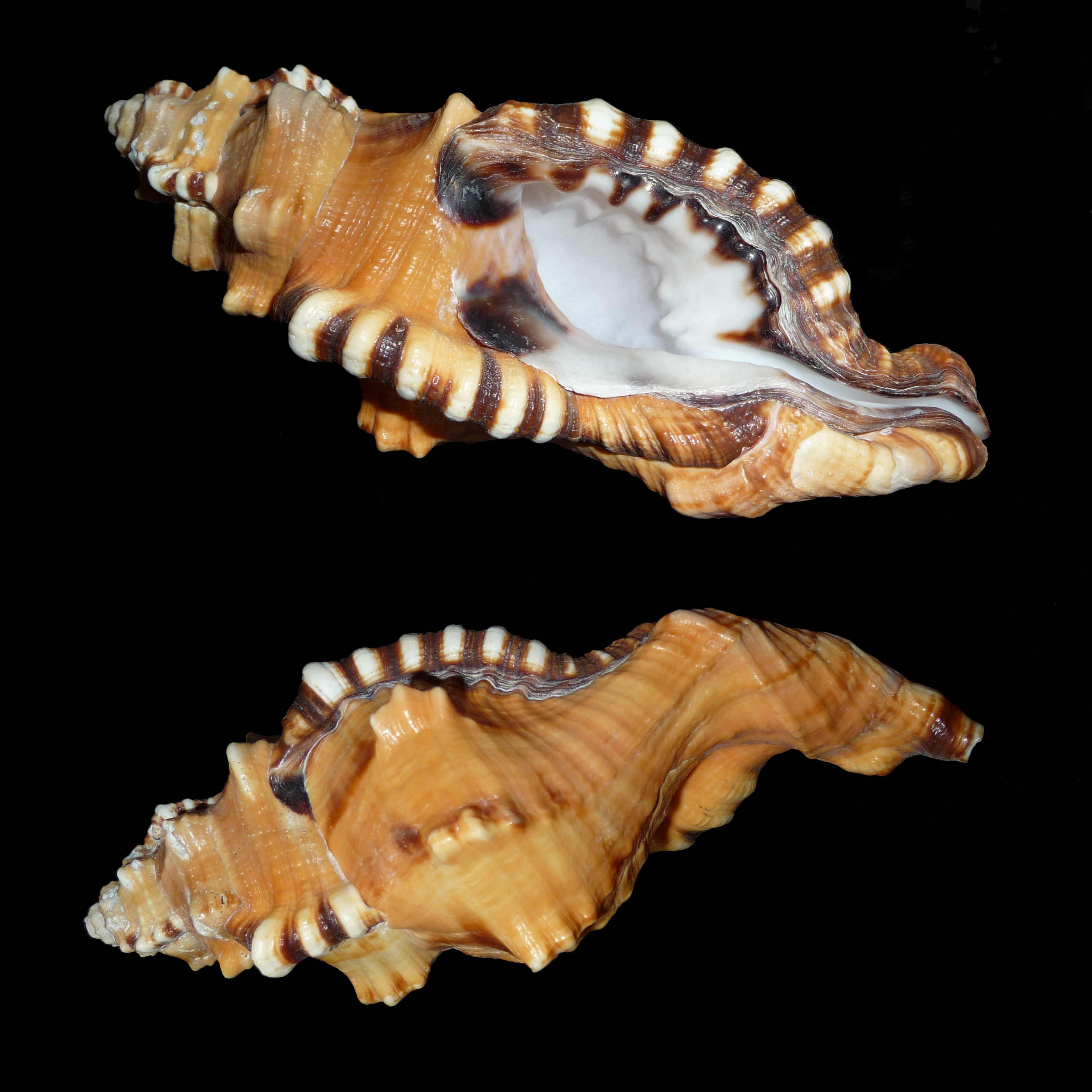 Black-spotted Triton, Washing Bath Triton Cymatium lotorium. Seashell from my personal collection. 141×60 mm.